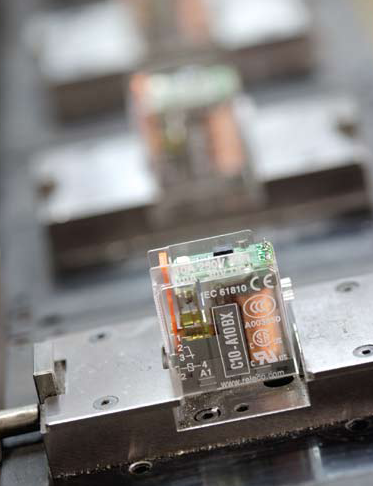 Academical material